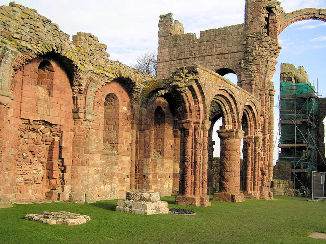 Lindisfarne Priory This is a shot from what was once the inside. It was built as a smaller copy of Durham Cathedral